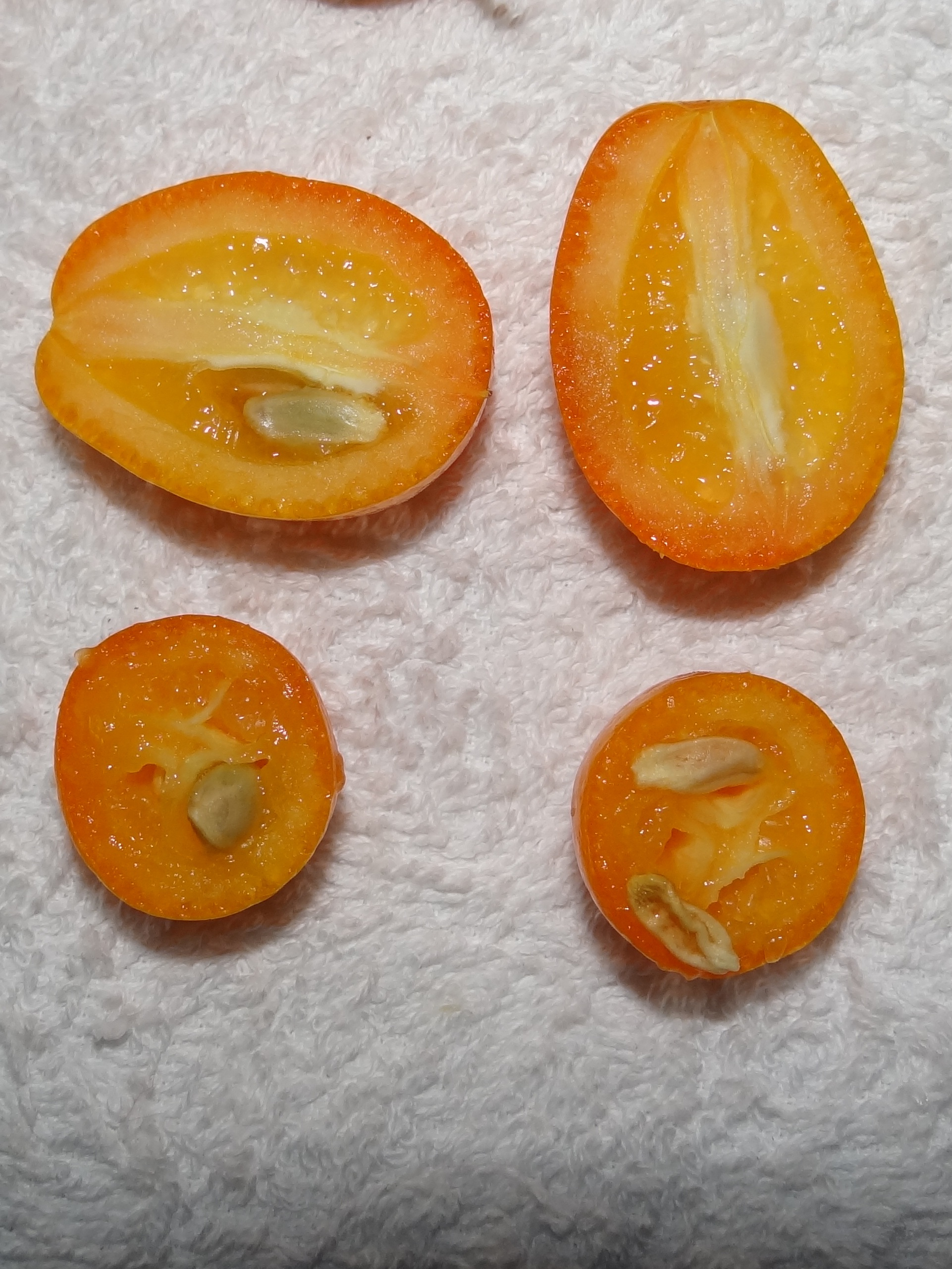 Kumquat fruits. Fortunella margarita Longitudinal and Lateral section